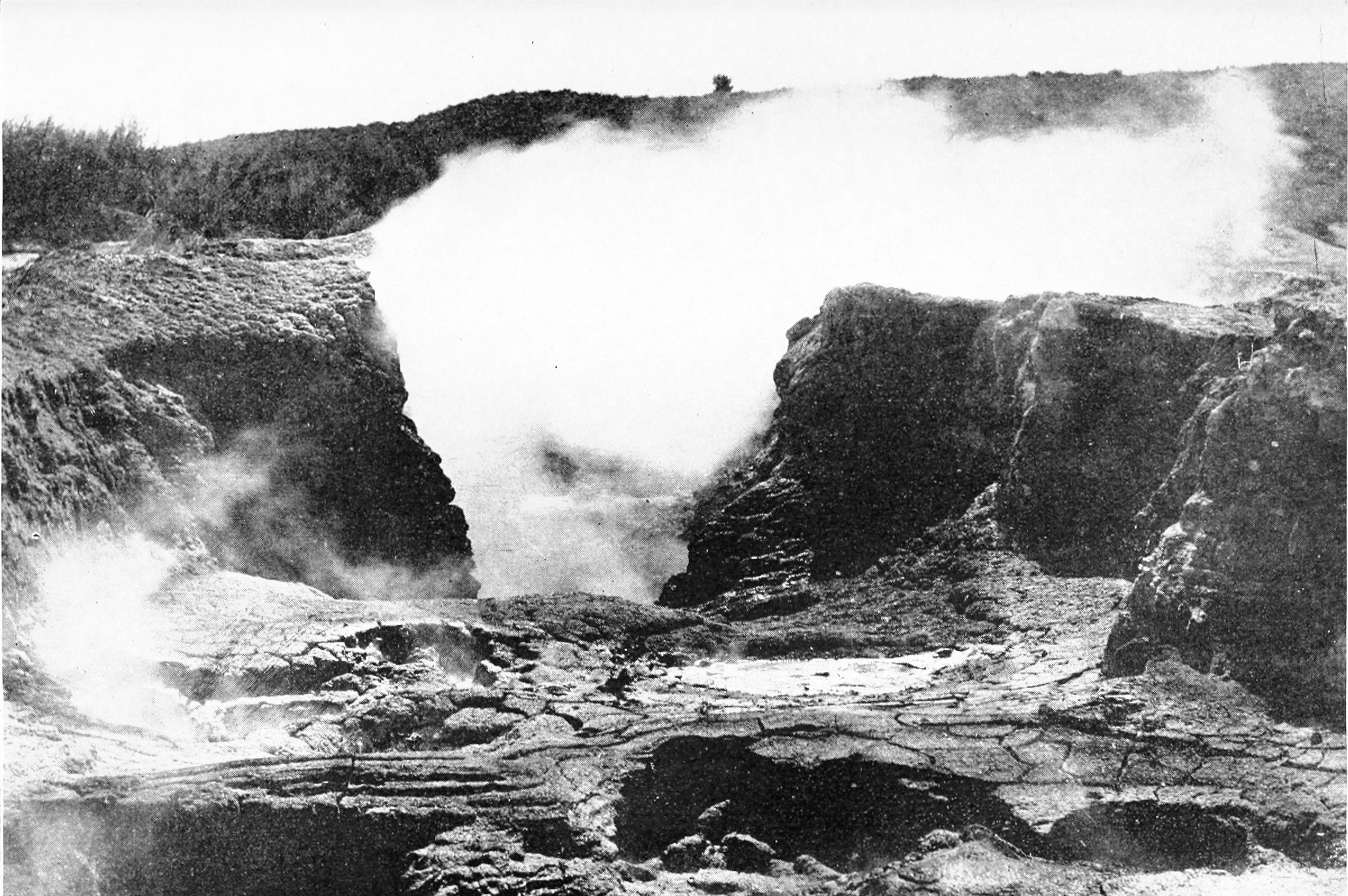 Frontispiece from Picturesque New Zealand, by David Paul Gooding. Original caption: The Inferno, Tikitere